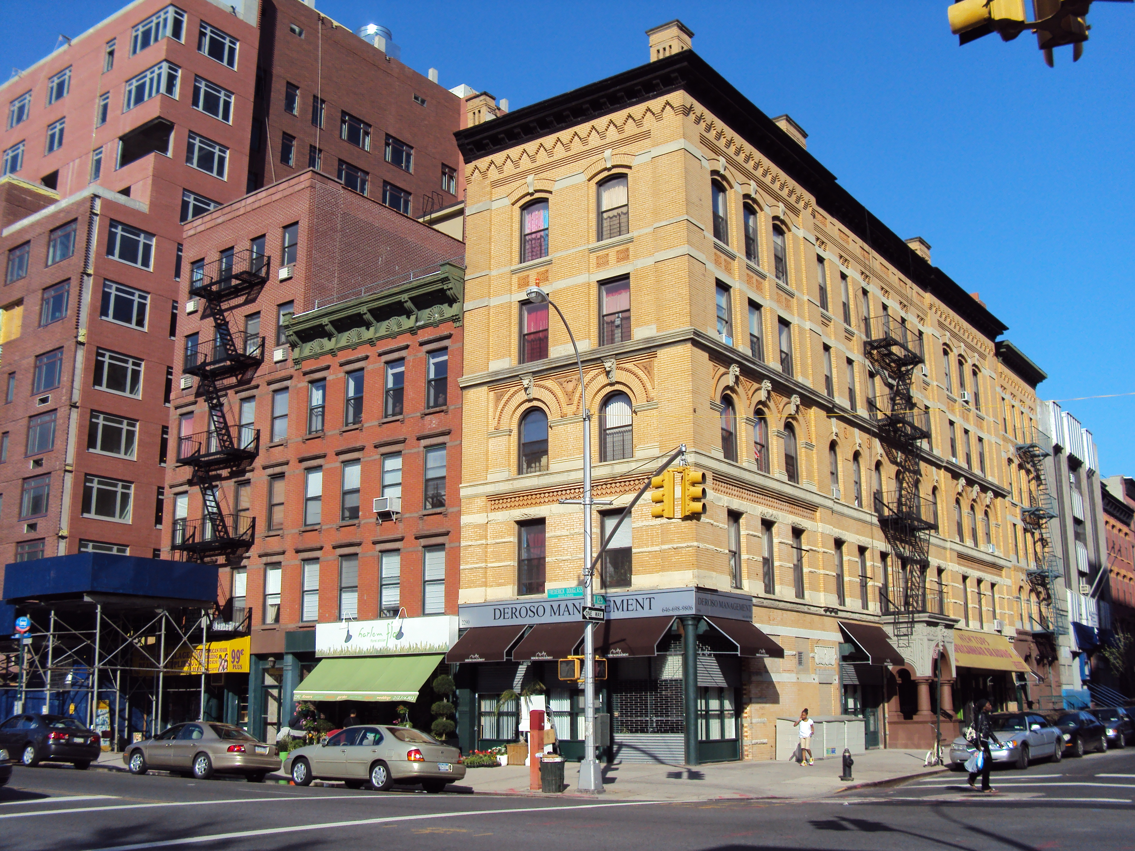 Great Street Corner in West Harlem